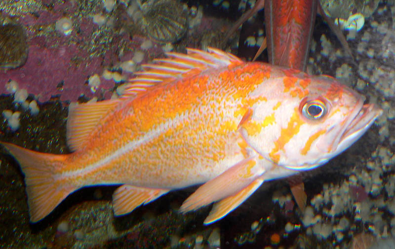 Photo of Sebastes pinniger (canary rockfish) at the Vancouver Aquarium